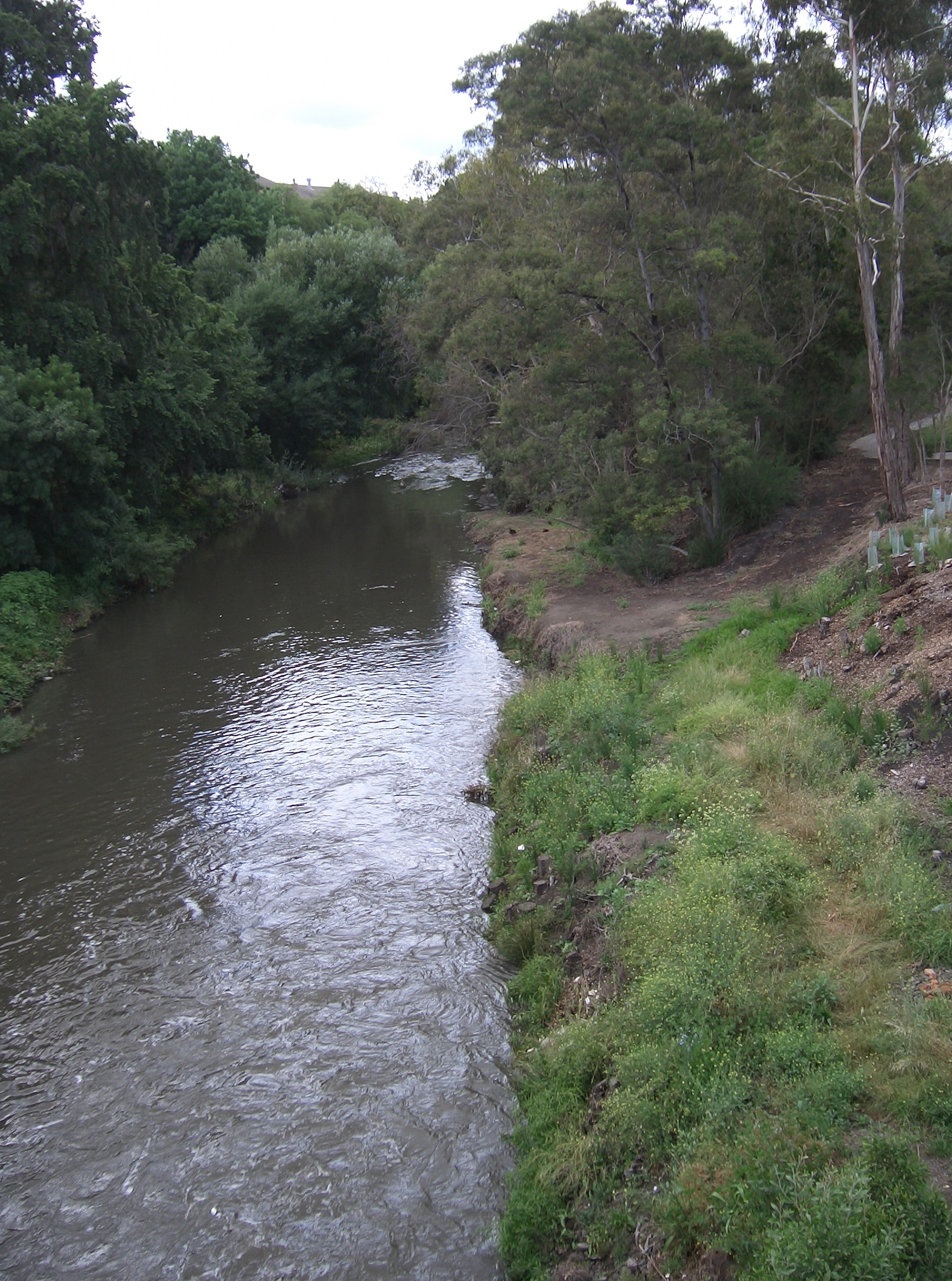 Merri Creek Trail - evidence of revegetation on the bank of the river.